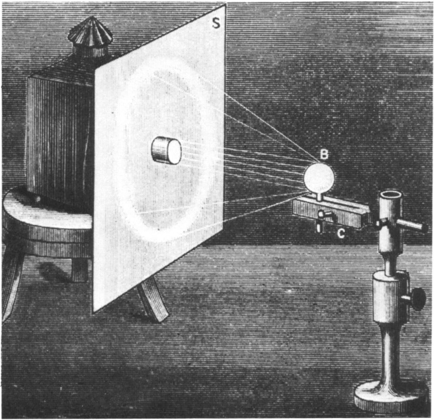 Round bottom flask rainbow demonstration experiment from A. Johnson, "Sunshine" (Macmillan, New York, 1894), p. 52.